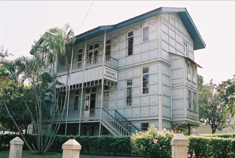 The "Iron House" in Maputo, Mozambique